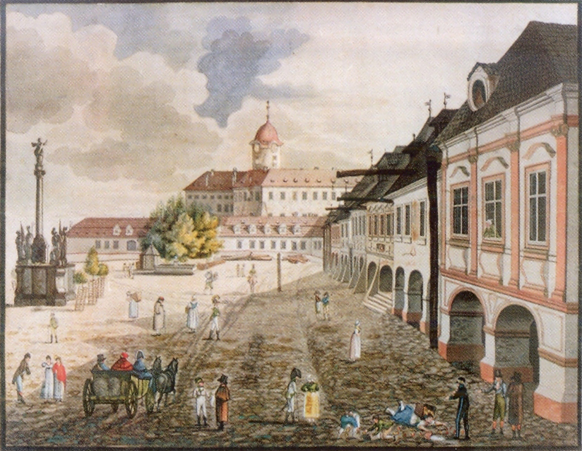 The main square in Podebrady at the end of the 18th century.